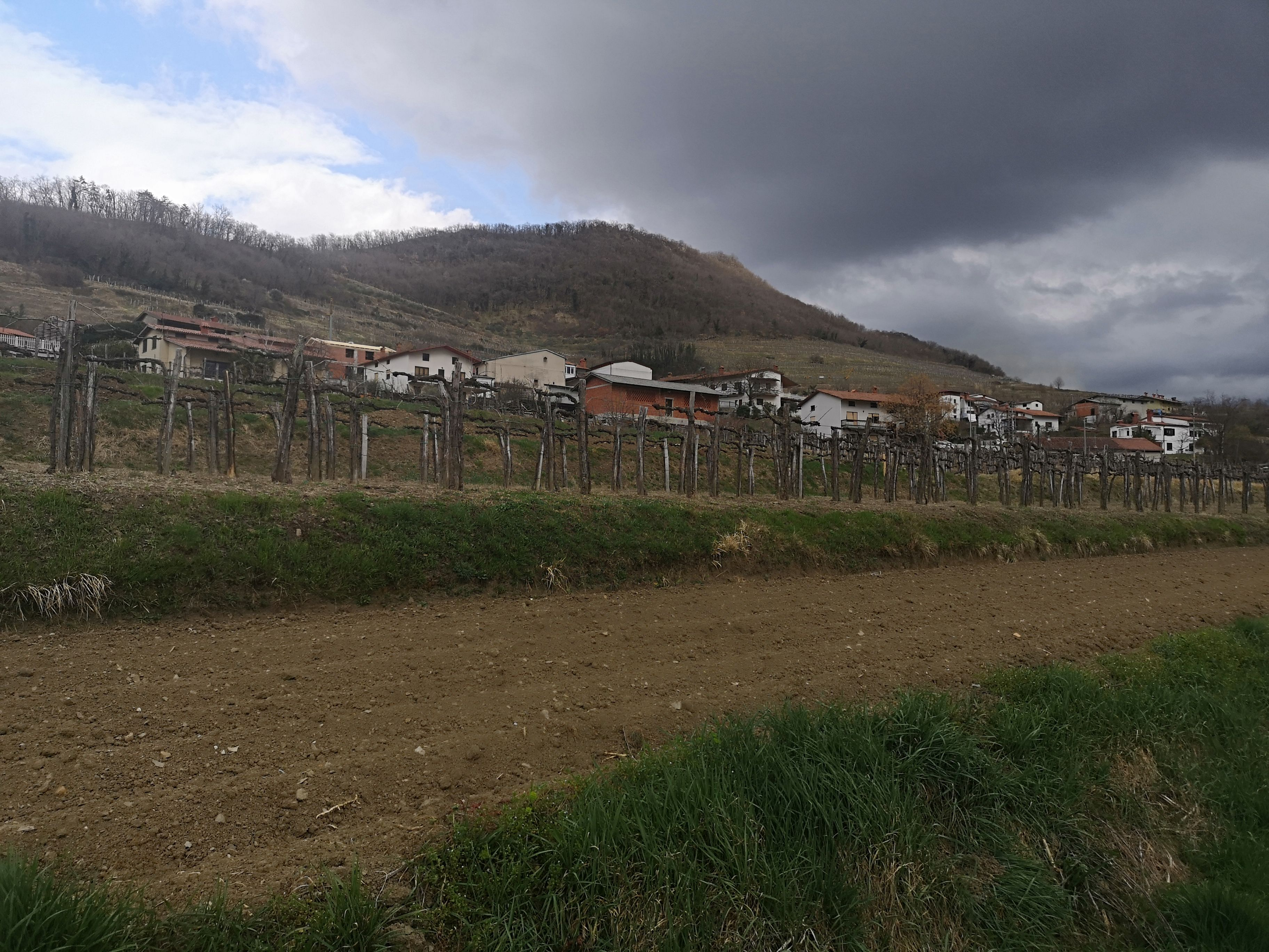 Zavino, a village in the Municipality of Ajdovščina (Vipava Valley, southwest Slovenia).